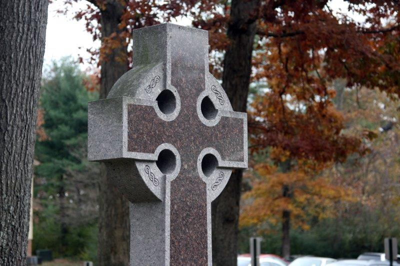 Celtic cross in Autumn